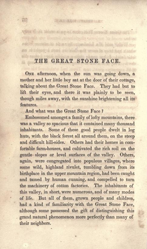 Opening page for "The Great Stone Face", a short story included in The Snow-Image, and Other Twice-Told Tales, a collection by Nathaniel Hawthorne. Boston (MA): Ticknor, Reed and Fields, 1852: p. 36. Released December 1851.